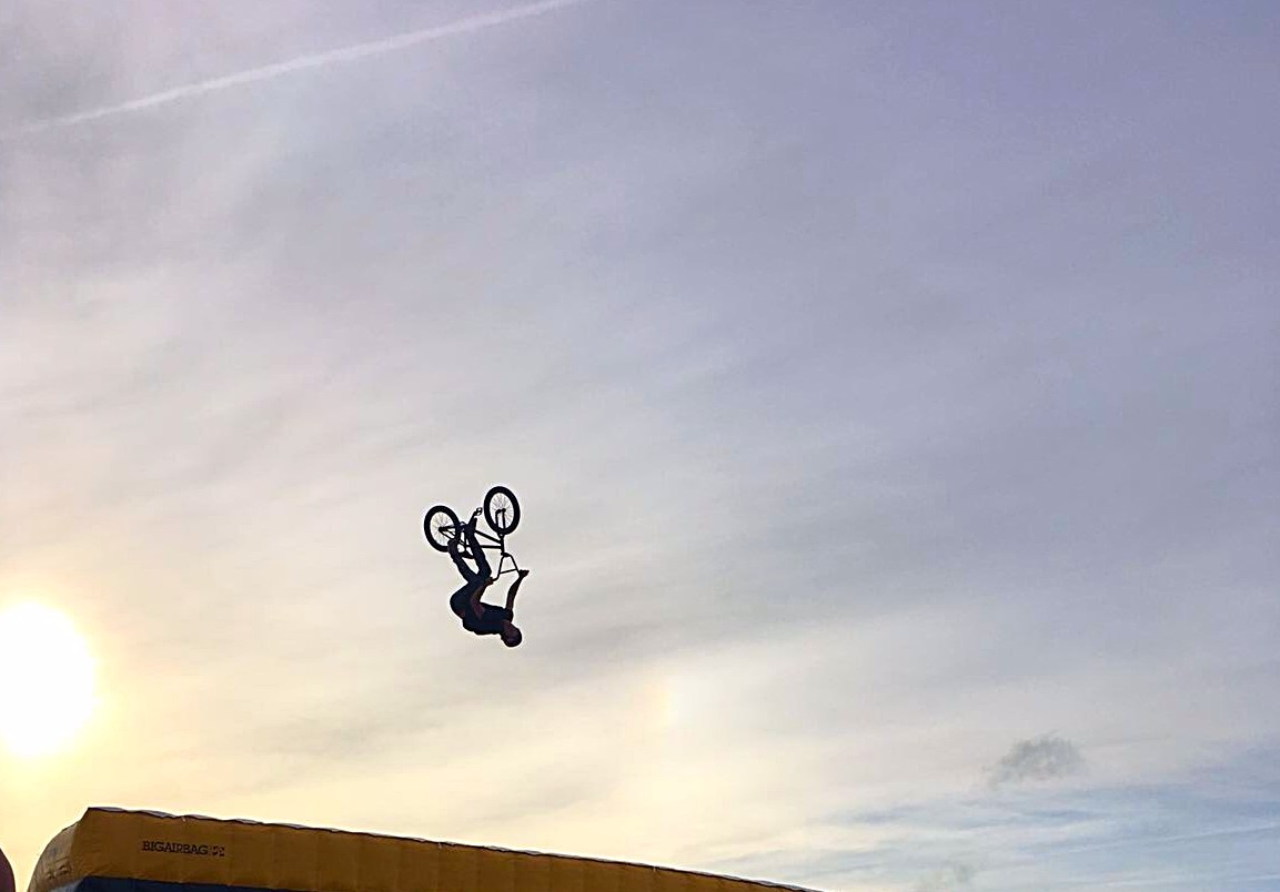 BMX at Ameland Beach in the Netherlands during Madnes Festival 2017